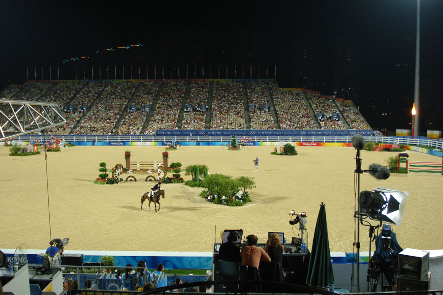 Beijing 2008 Olympic Game - Equestrian Event - Eventing Jumping, Individual Final